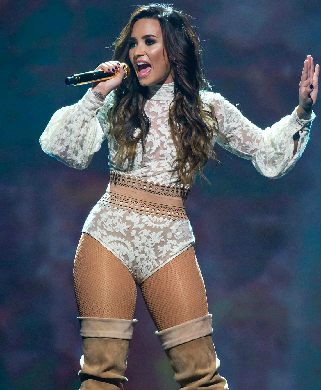 Demi Lovato performing at the AT&T Center in San Antonio, Texas on September 10, 2016.